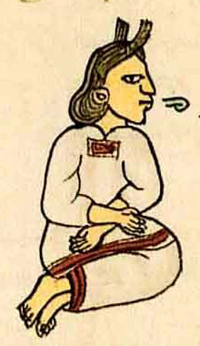 picture of an Aztec woman with a speech scroll coming out of her mouth, from the Florentine Codex